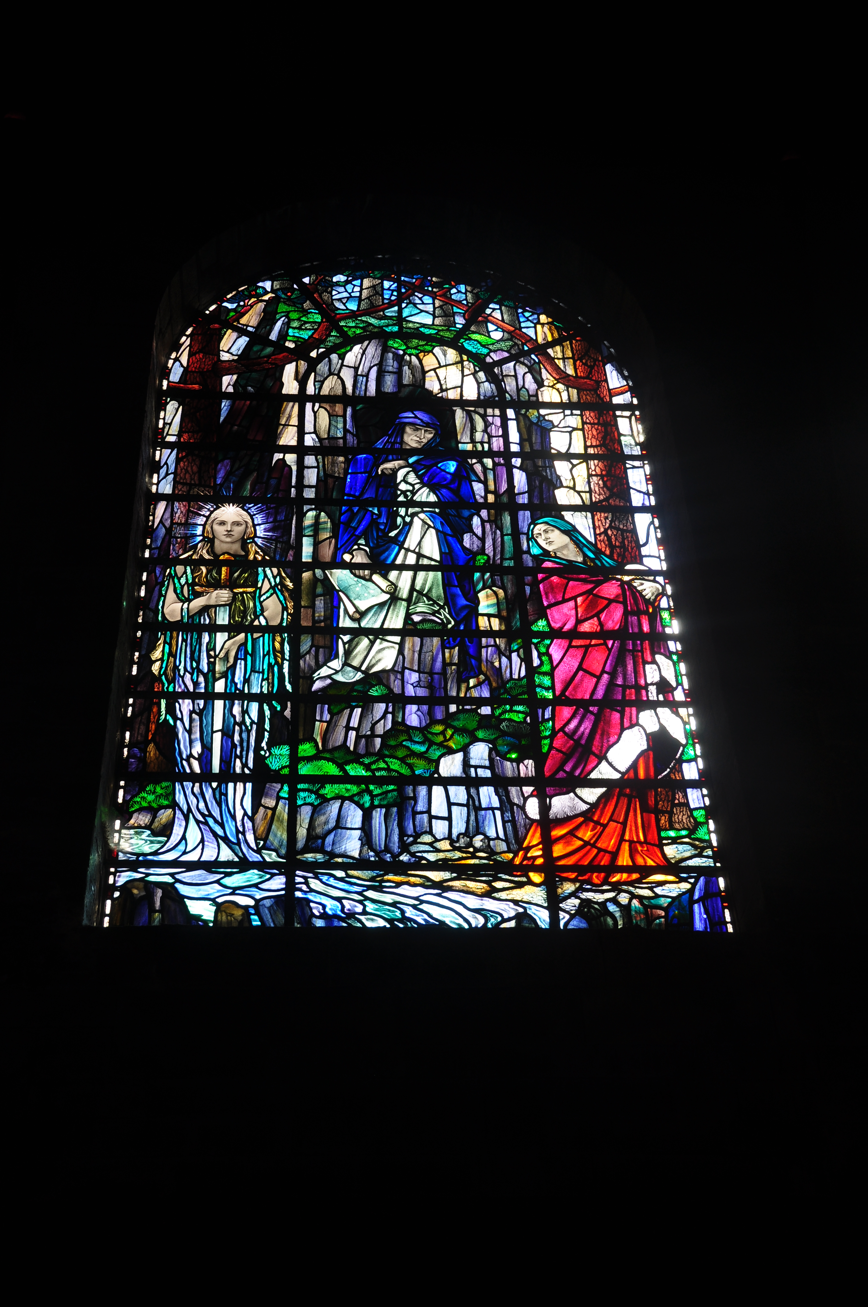 King Arthur's Great Halls, Tintagel